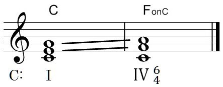 An example of voice leading between two triads.